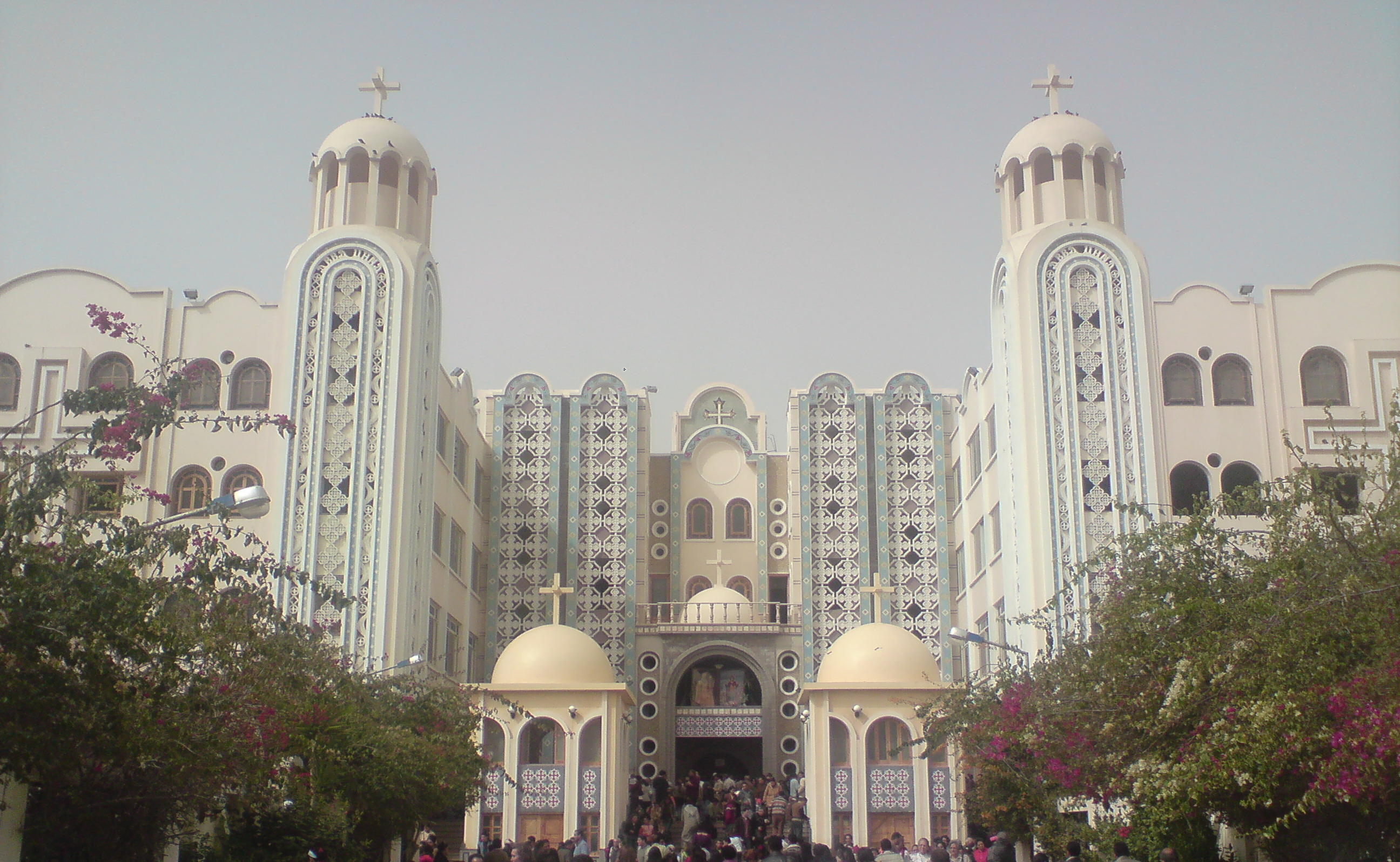 The Monastery of Abu Mena. Abu Mena was a town, monastery complex and Christian pilgrimage center during the Christian era in Egypt. It was built in memory of the Christian martyr Menas of Alexandria.